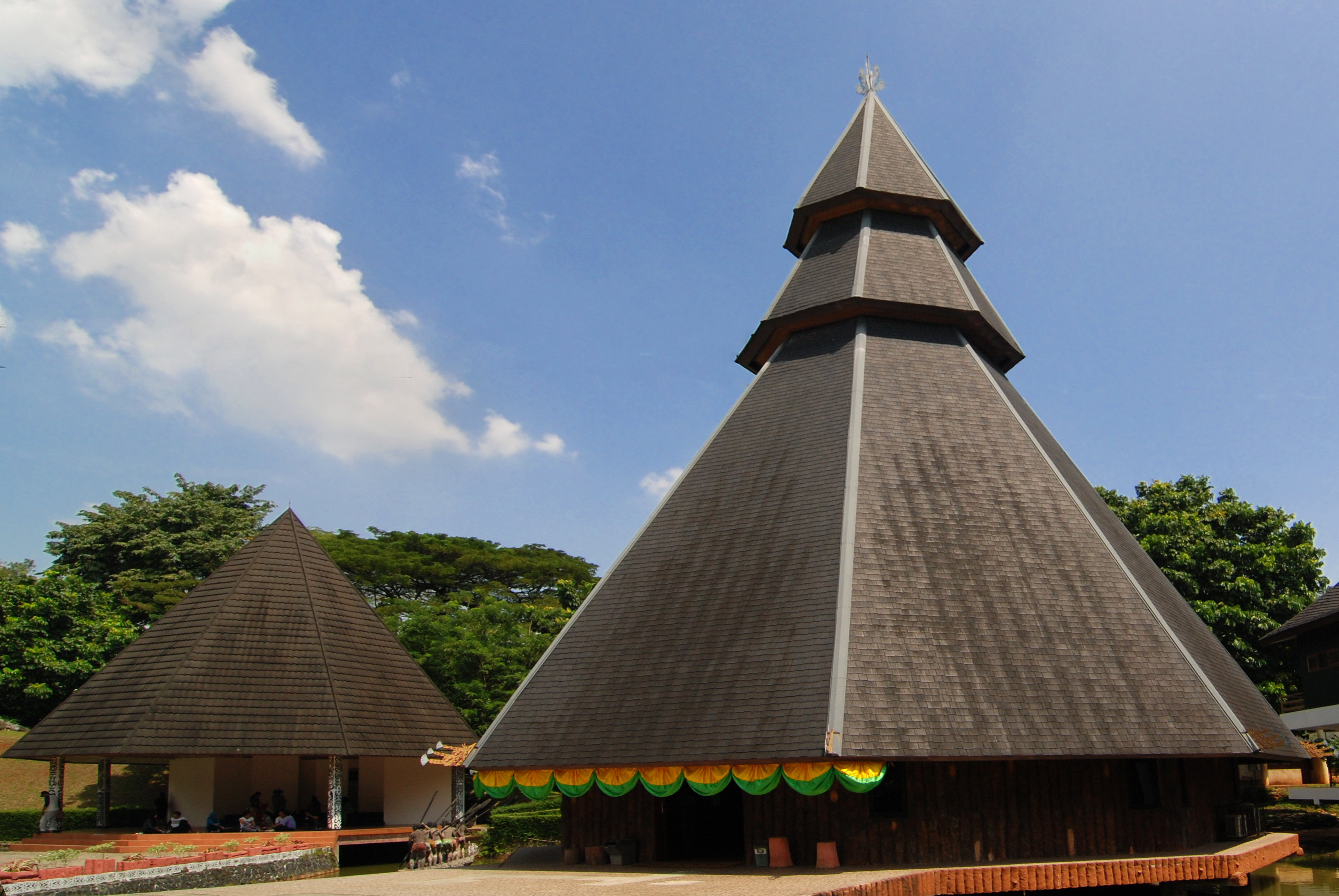 Hanasbey tribes Kariwari House tribal school.